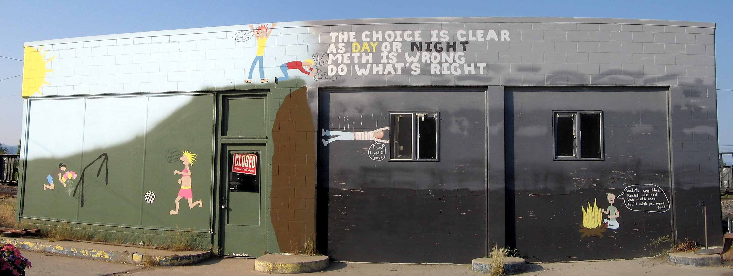 Community-driven mural for the Montana Meth Project in Drummond, Montana.